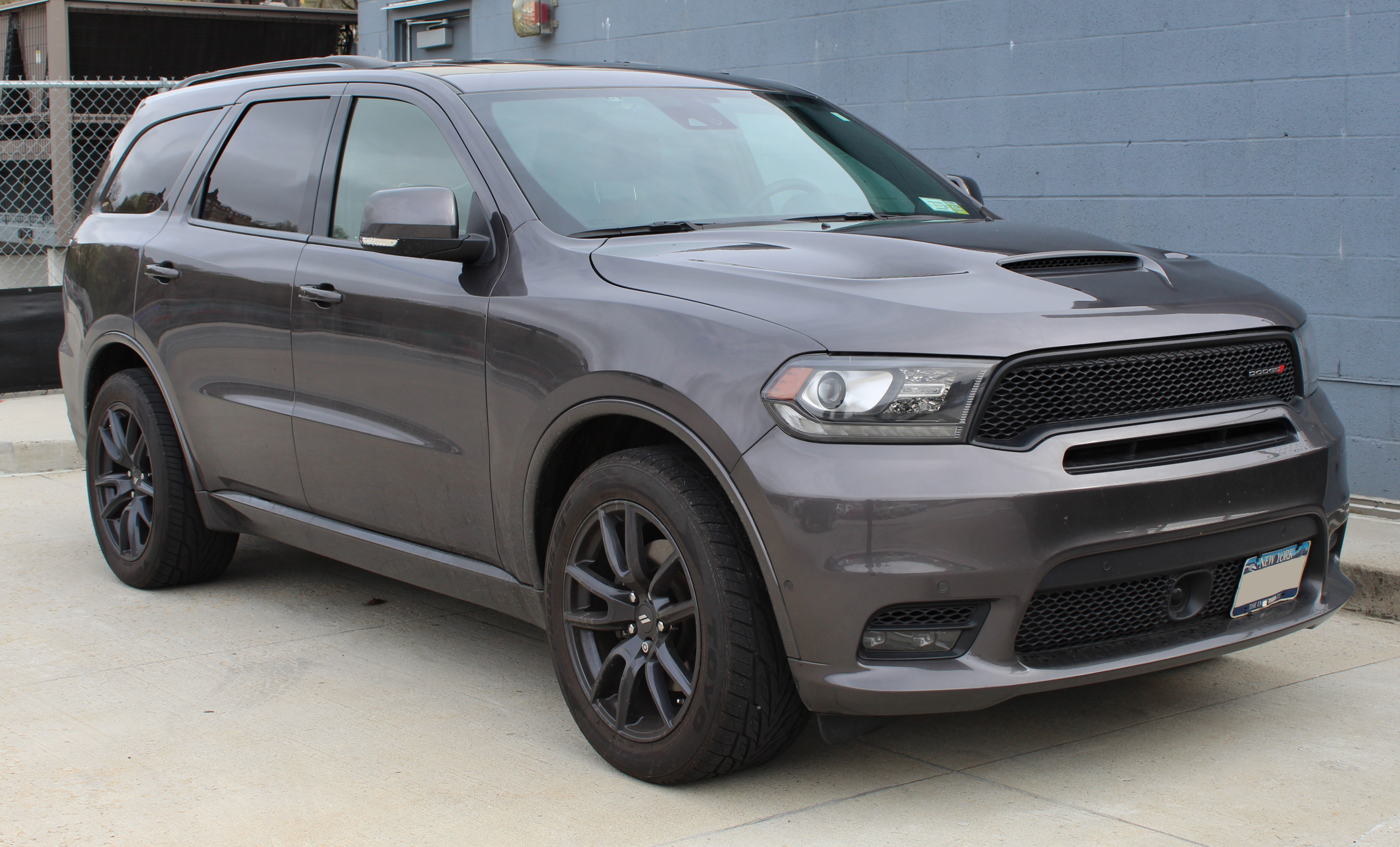 A 2018 Dodge Durango R/T photographed in Bronx, New York, USA